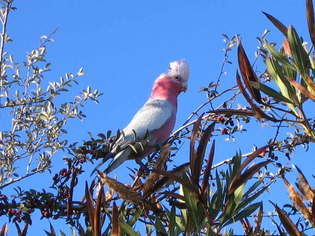 Galah, Applecross, Western Australia